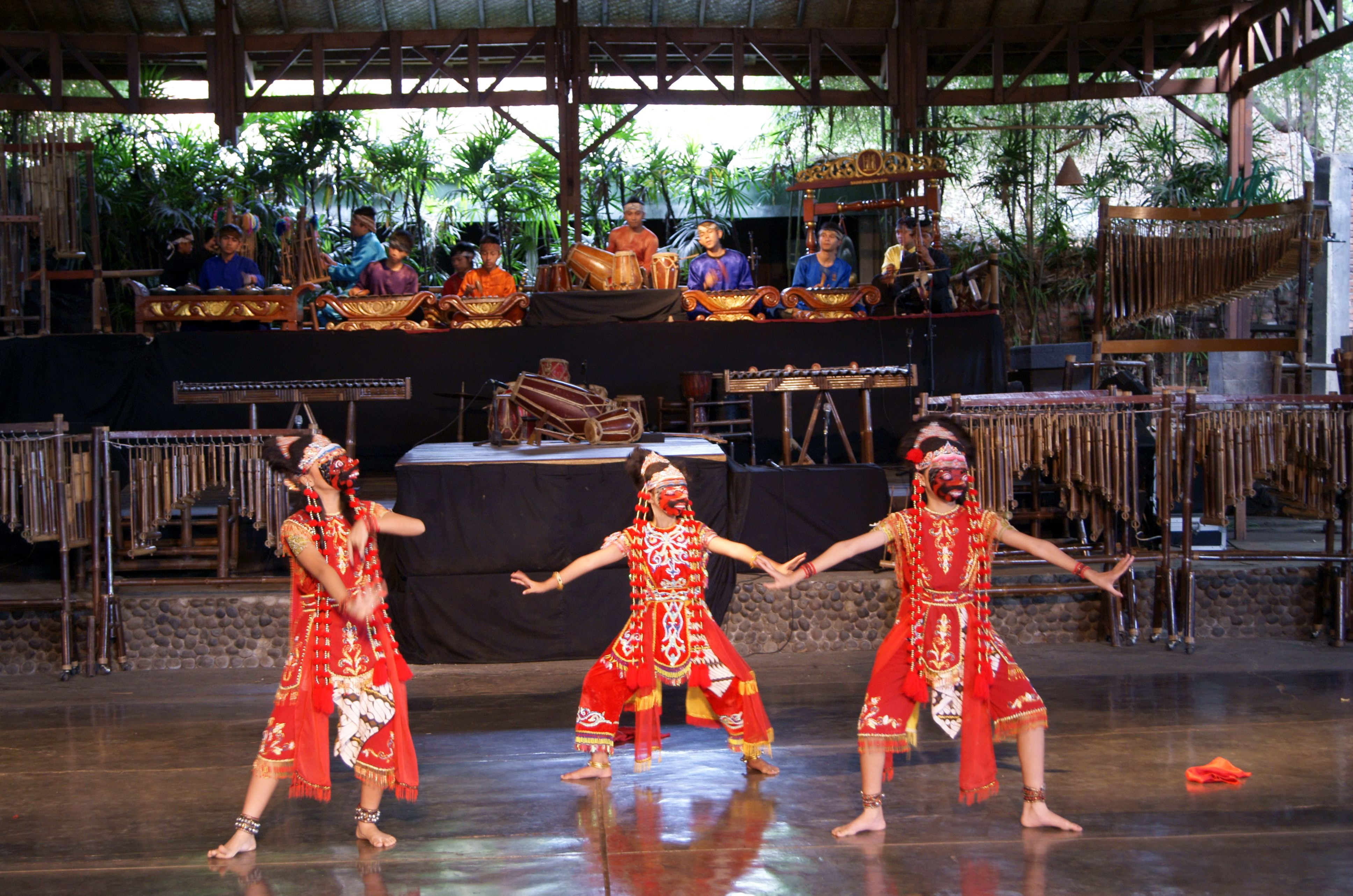 Kandaga mask dance at Saung Angklung Udjo, Bandung, Indonesia.